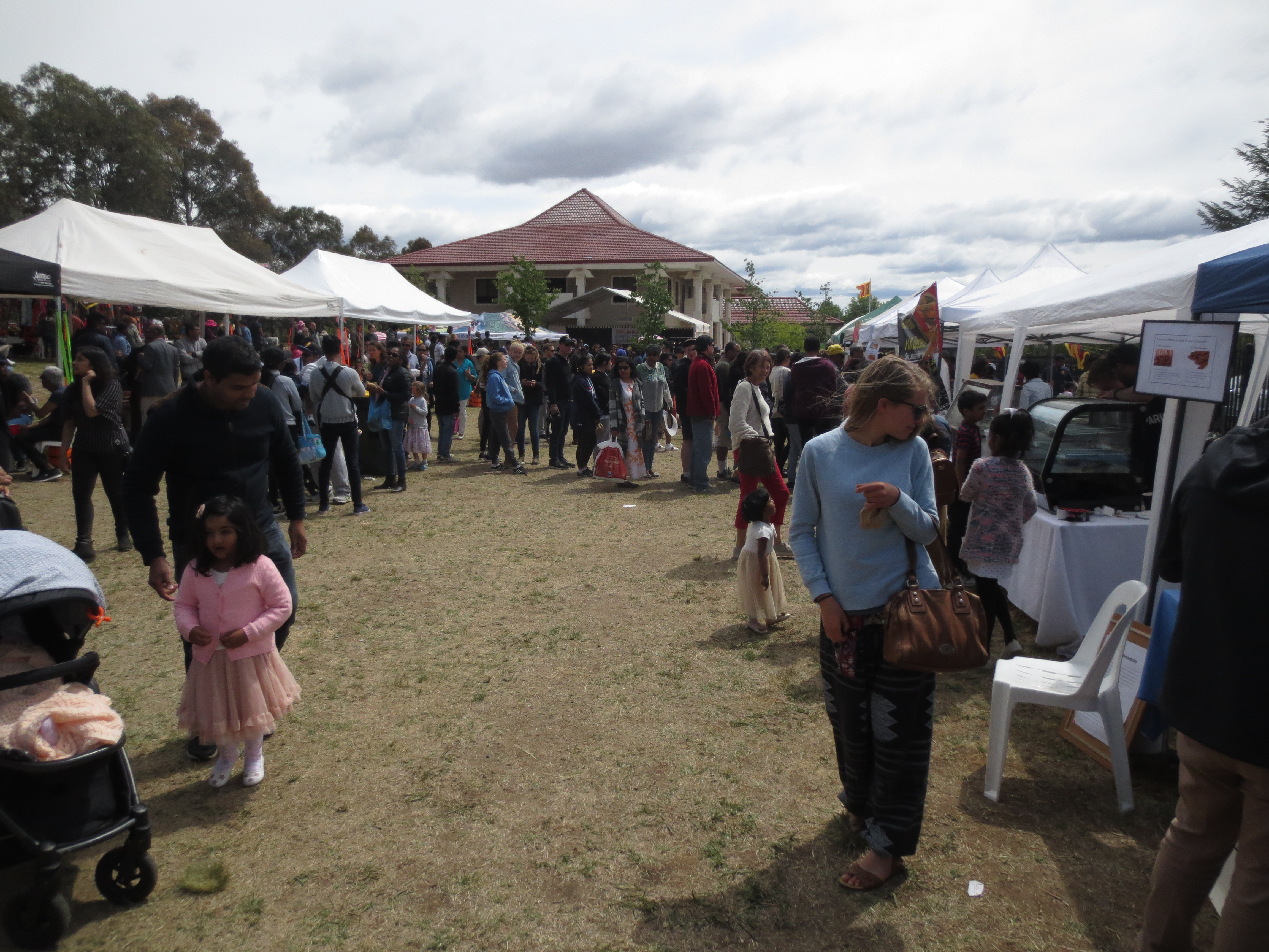 festival of sri lanka food music embassy canberra